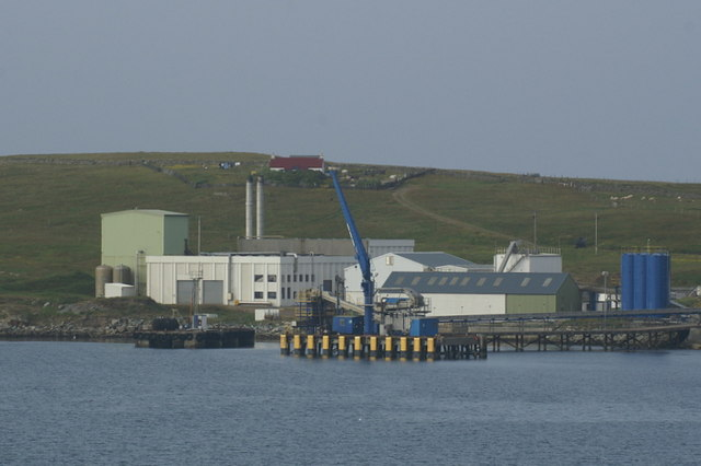 Heogan Fishmeal Factory, Bressay